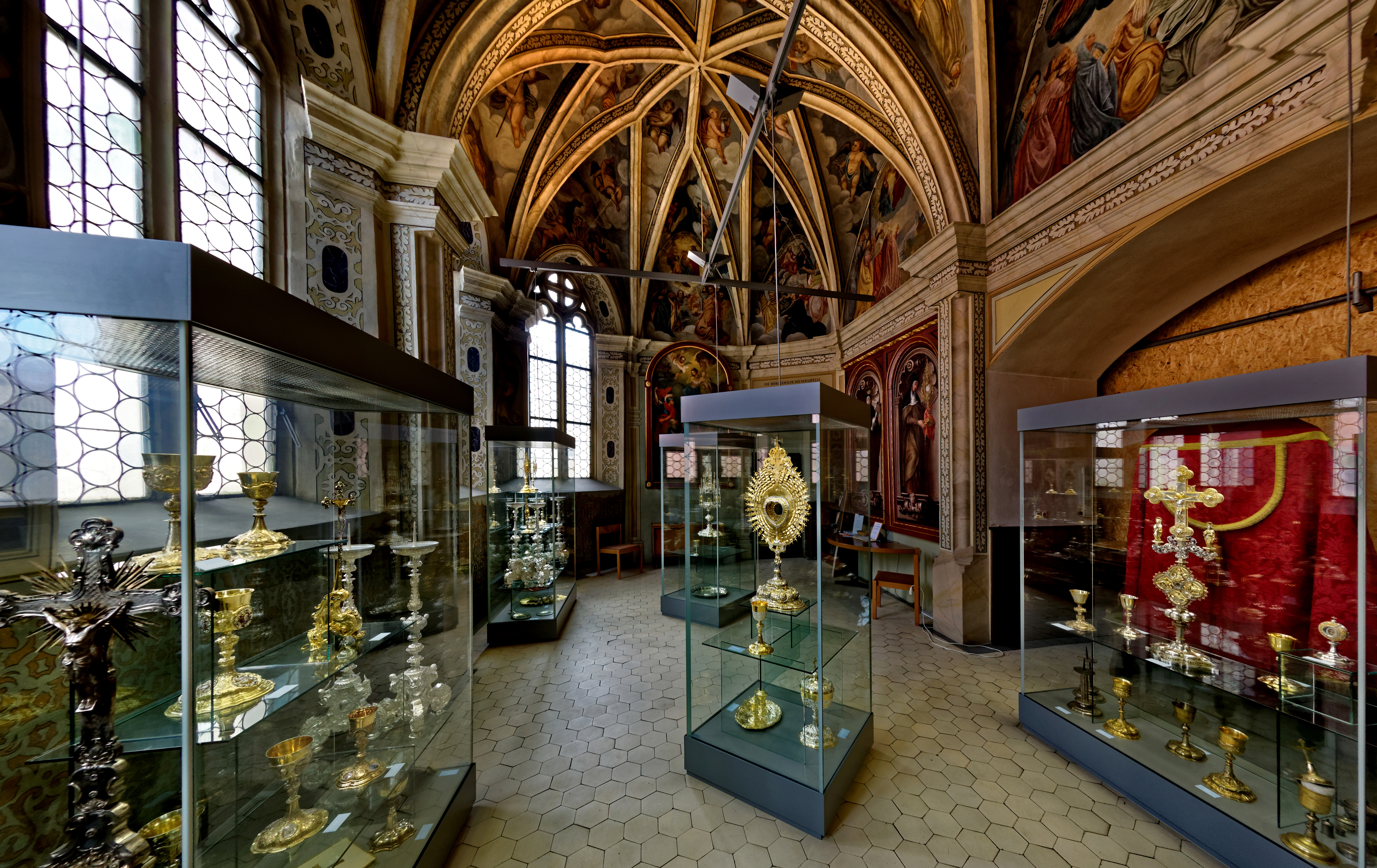 Treasury of the Cathedral St. John in Bad Mergentheim